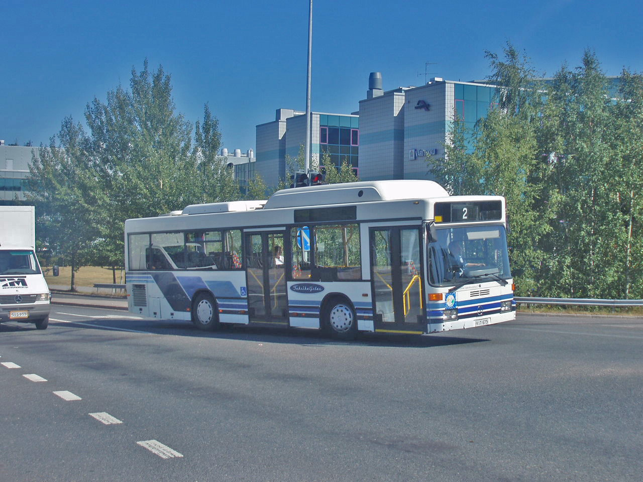 Mercedes Benz bus of Taksikuljetus in Finland.